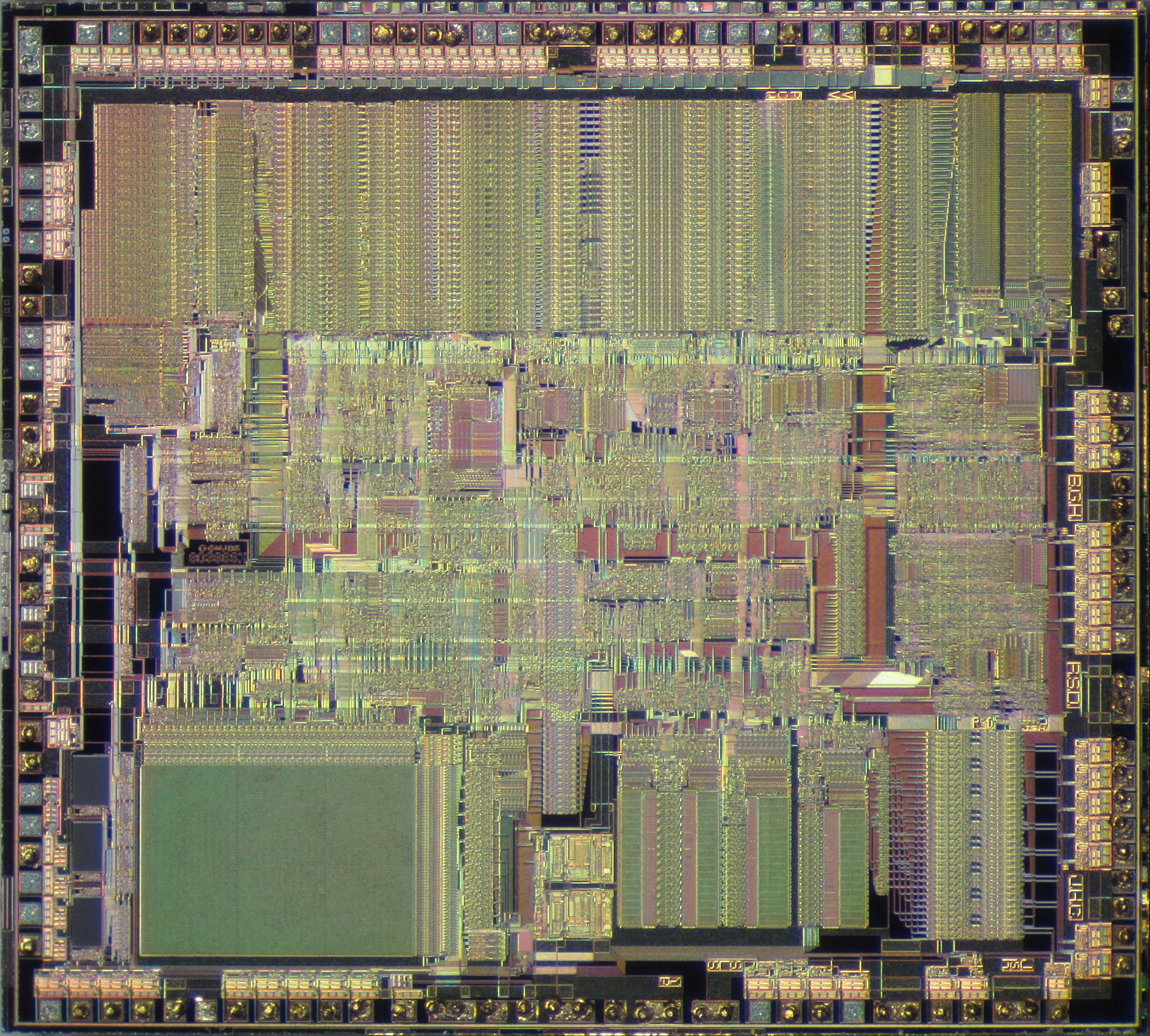 Die shot of Intel 80386 SX-20 microprocessor (NG80386SX-20 C STEP).